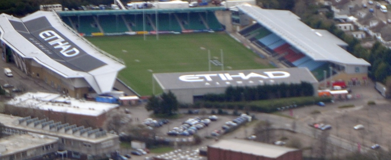 Cropped image of the Stoop, Twickenham, Middlesex.